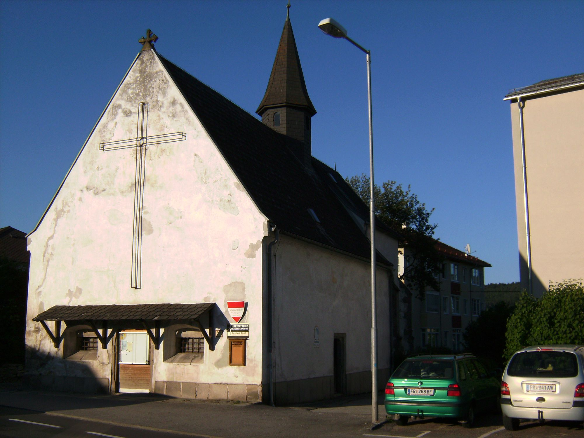 Johanneskirche Freistadt (Church)